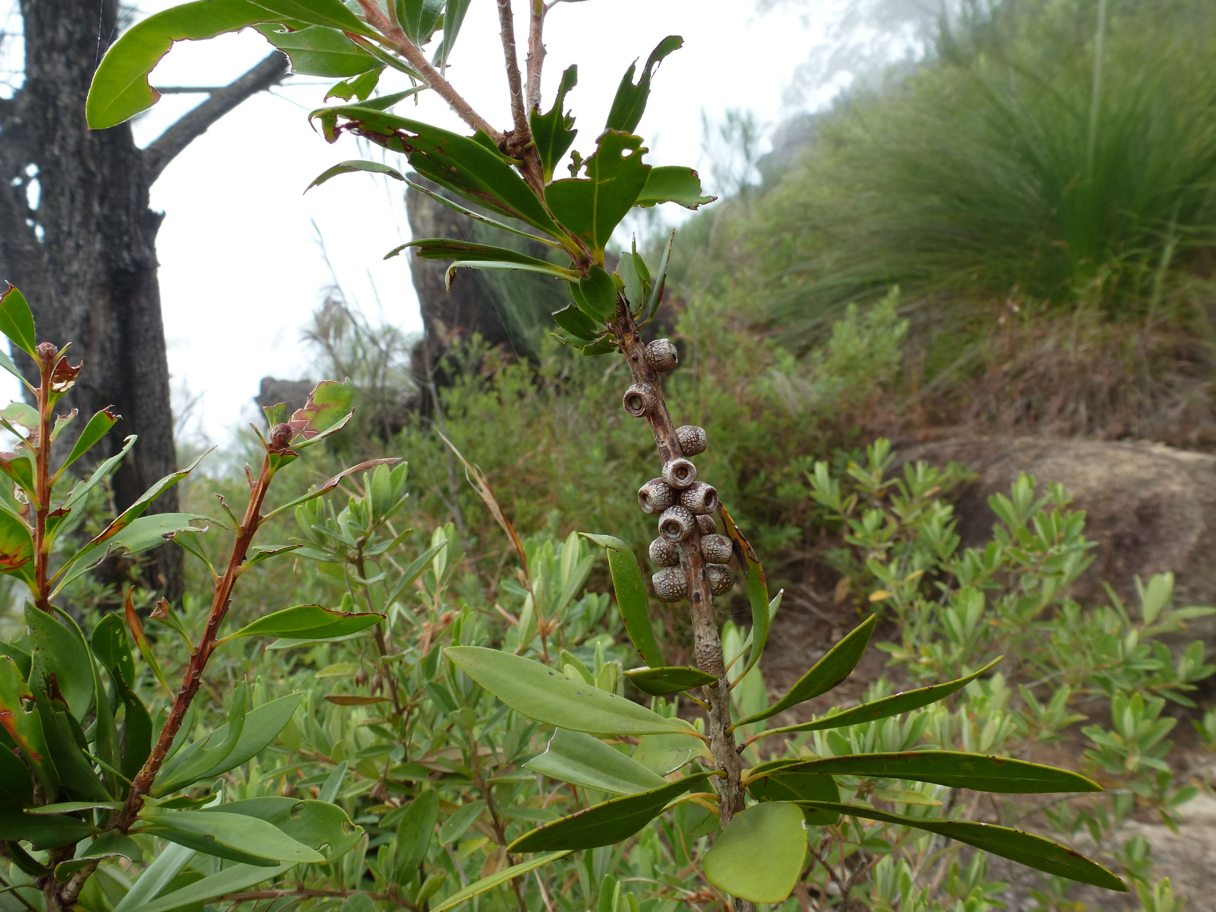 Melaleuca pyramidalis (fruits) on Walshs Pyramid